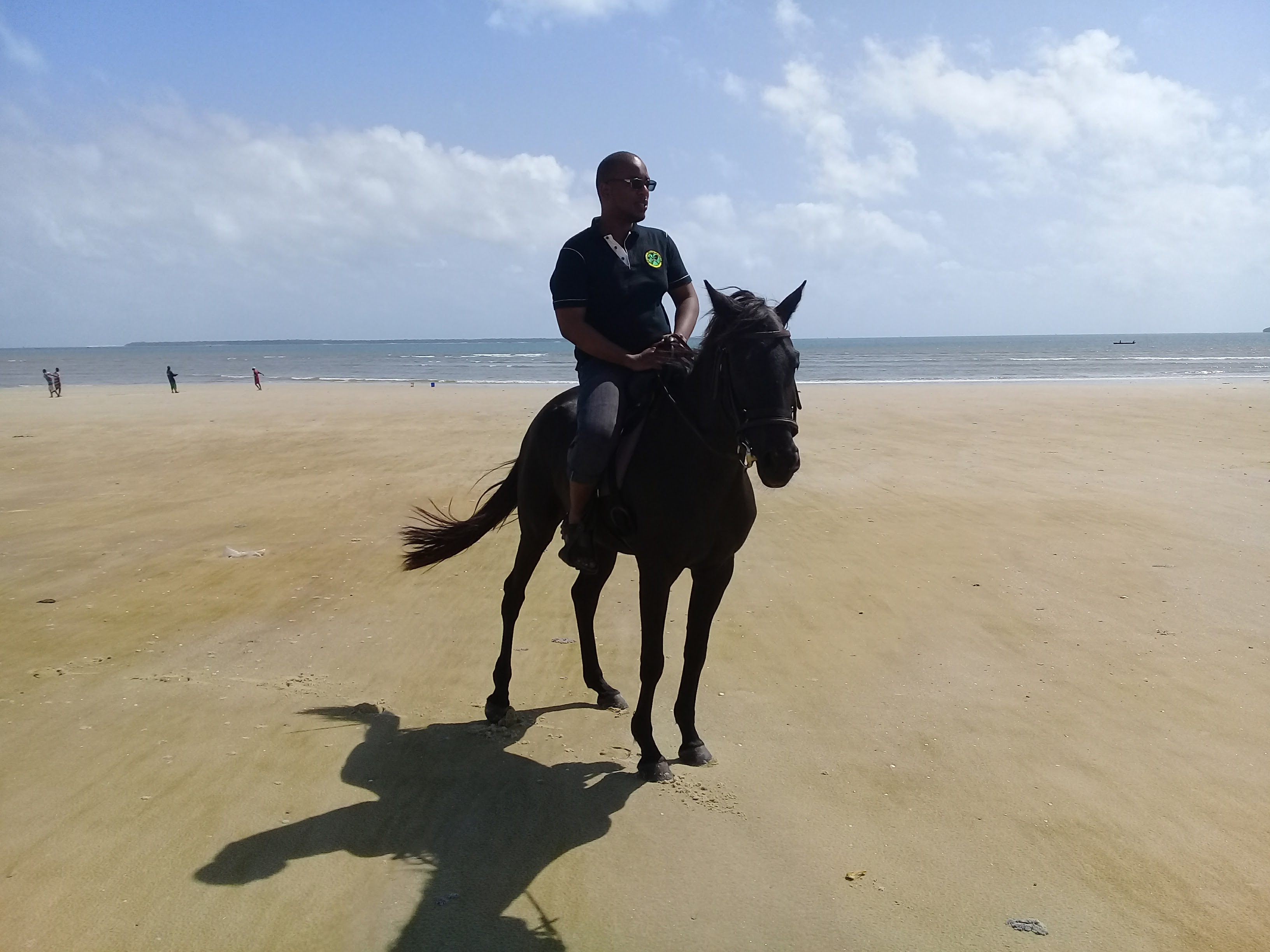 This horse is crazy, lets just get that clear. Getting on her and off her is just the start, she preferring going in circles than going forward and not listening to your cries of worry. Otherwise, a great experience :) This is an image of "African people at work" from Tanzania